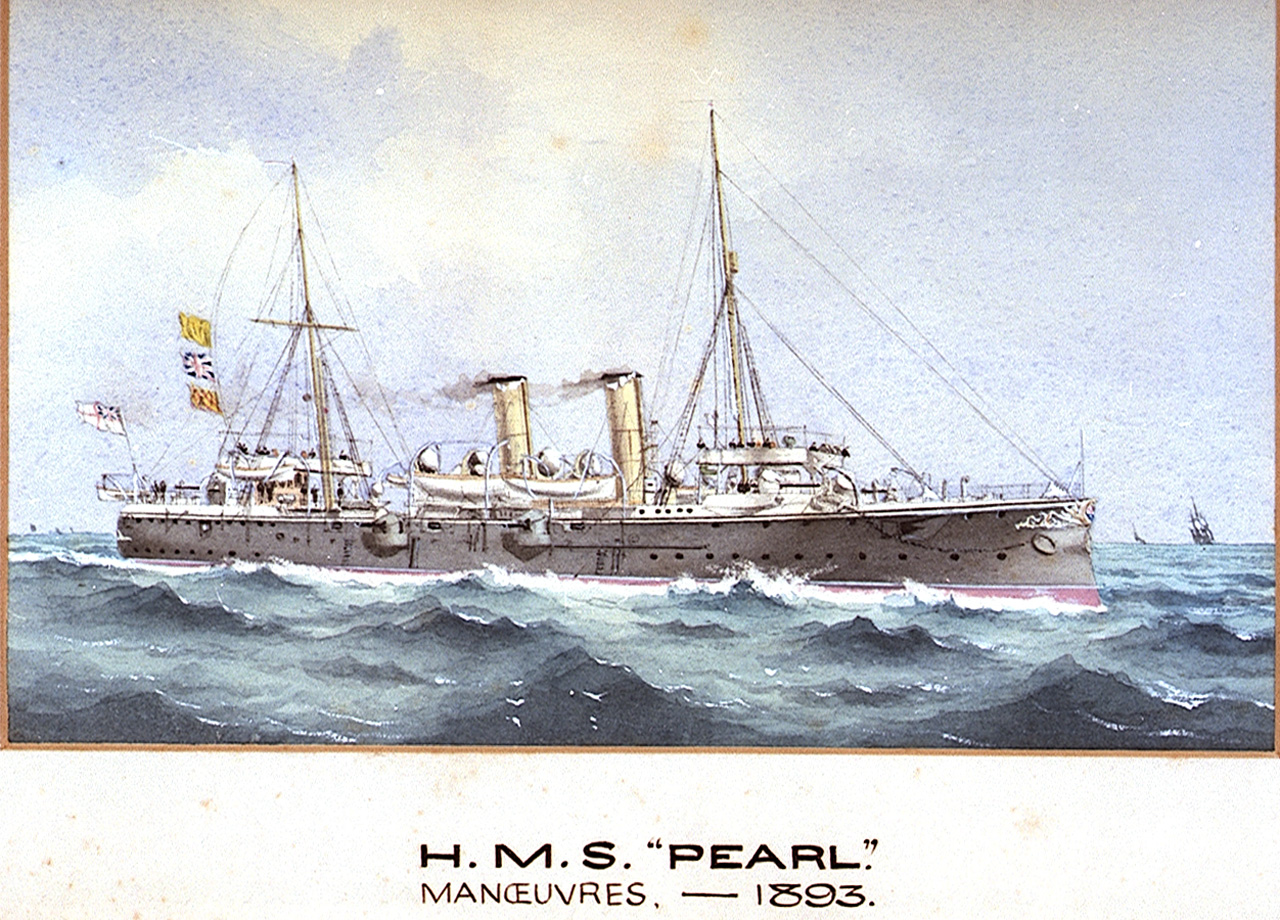 HMS Pearl Manoeuvres - 1893 Drawing